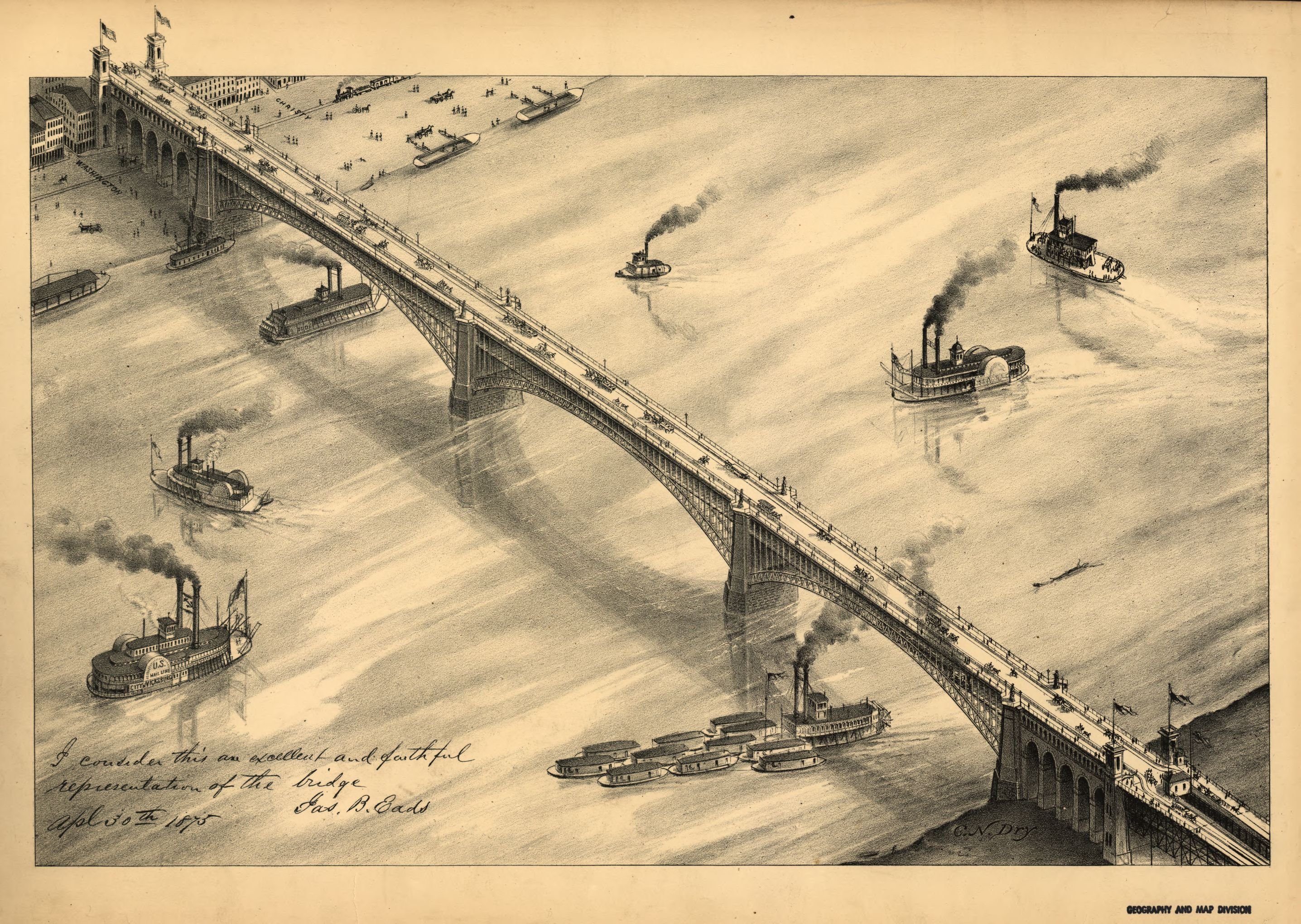 An 1875 drawing of Eads Bridge by Camille N. Dry [Drie]. From Pictorial St. Louis, the great metropolis of the Mississippi valley; a topographical survey drawn in perspective A.D. 1875, by Camille N. Dry; designed & edited by Rich. J. Compton. Published: St. Louis: Compton & Co., 1876. City of Vicksburg packet steamer